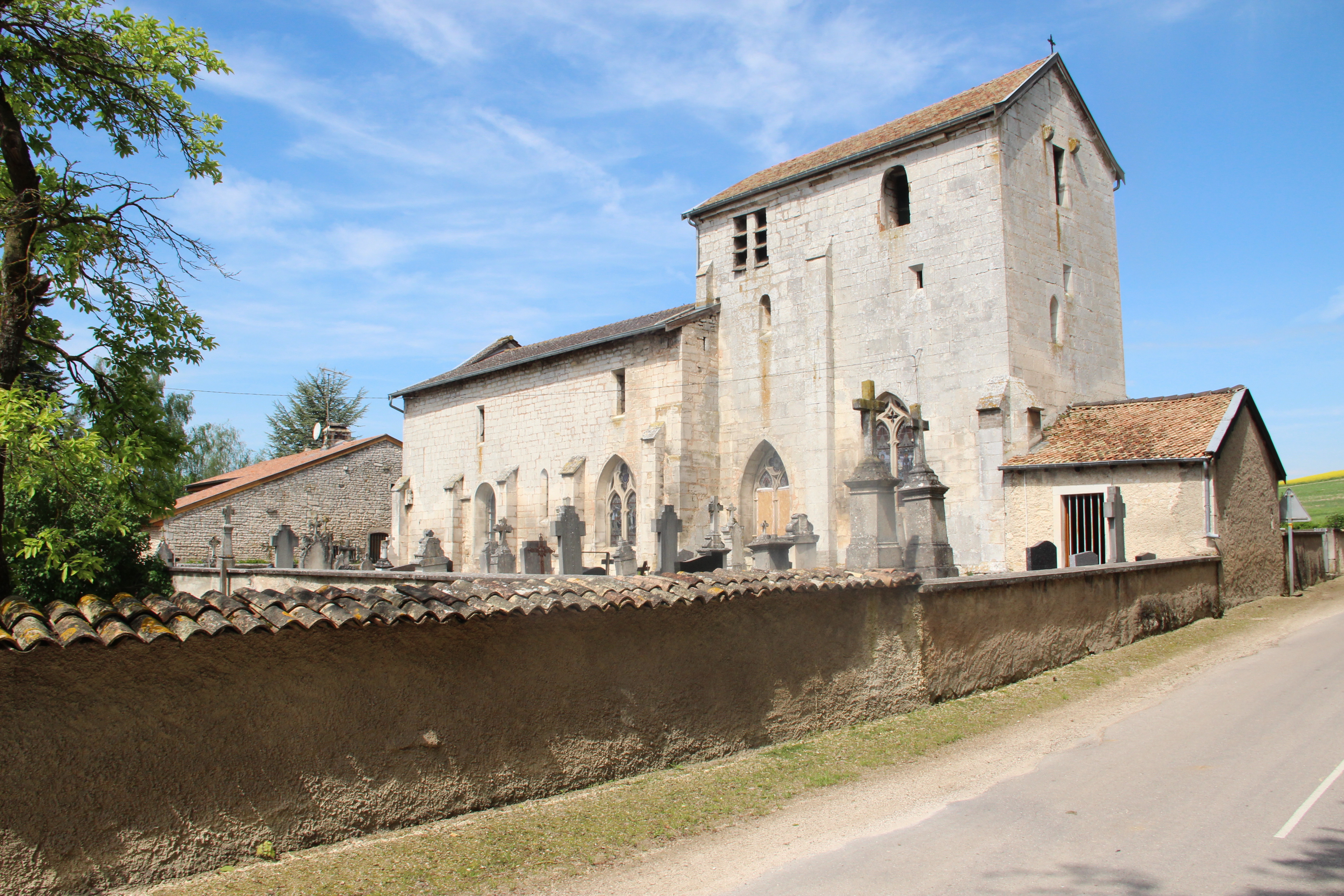 Jakobsweg by Niederkasseler France - Kirche Champougny